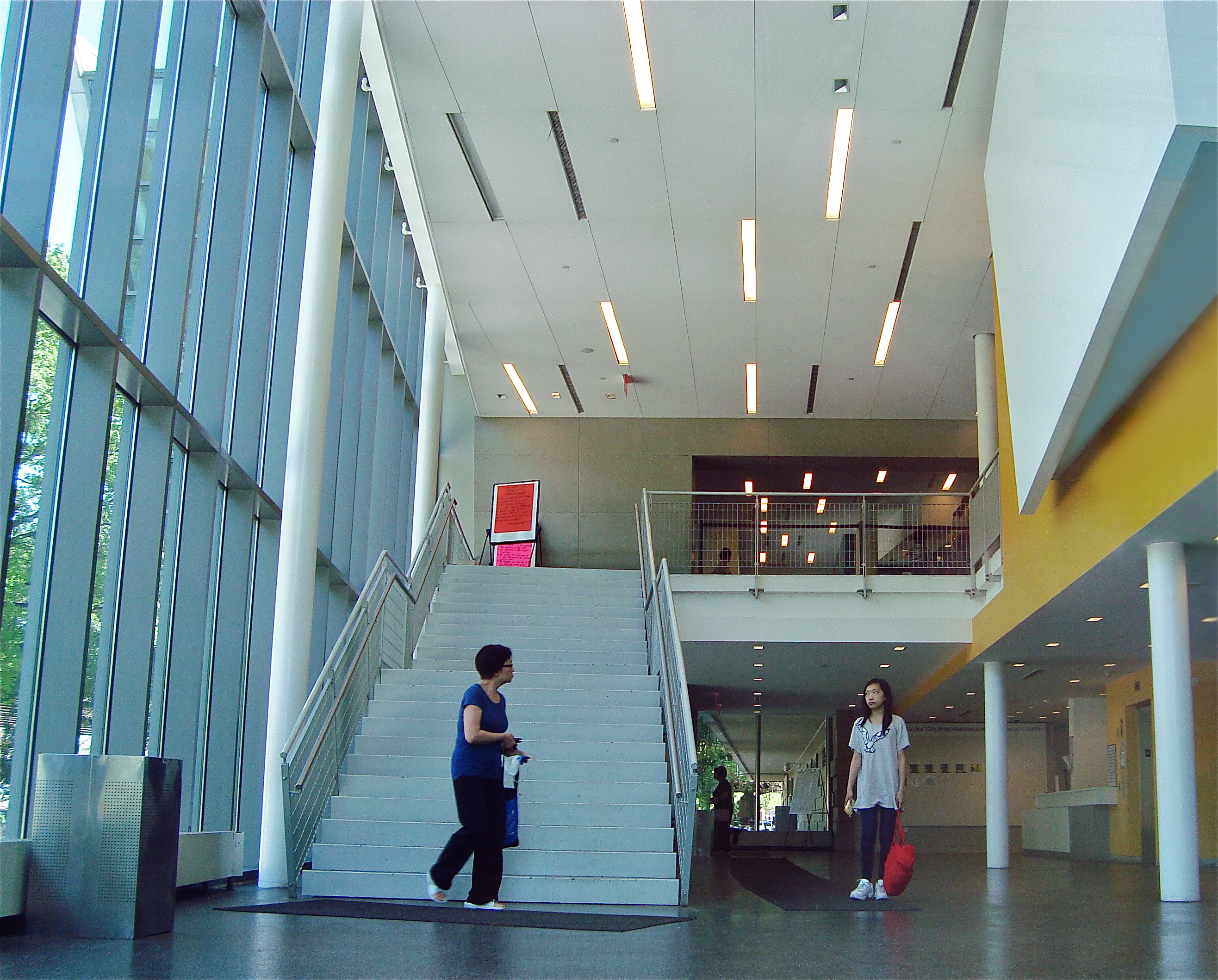 Interior lobby space of the Natatorium. Image by Jennifer Chen.